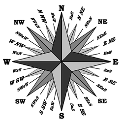 Public domain image of a compass rose Brought from Image:Windrose.png and before copied from Bild:Windrose.png, created by Benutzer:Ocolu